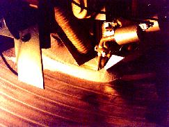 Electroslag welding - Corrosion resistant strip weld overlaying